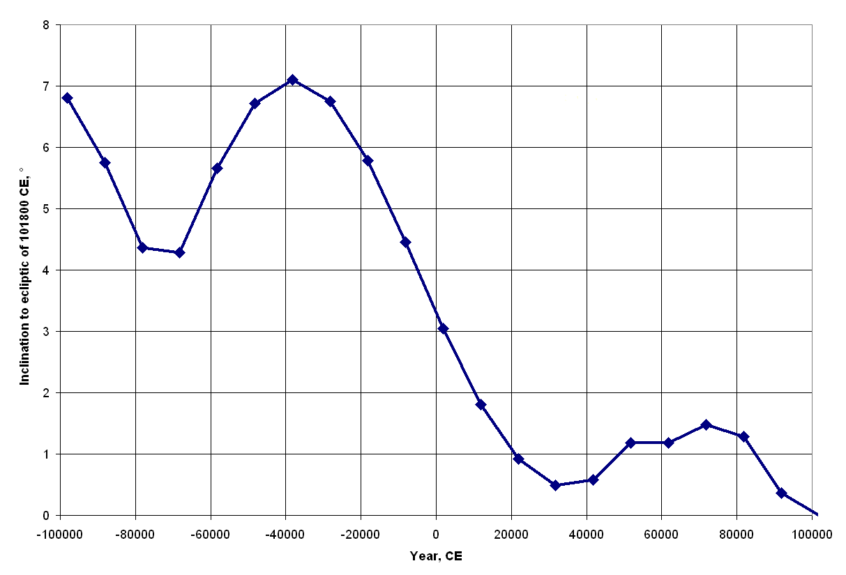 Graph of the changing inclination of Earth's orbit (the ecliptic) over 200,000 years, from Dziobek, Otto (1892) Mathematical Theories of Planetary Motions, Register Publishing Co., Ann Arbor, Michigan, p. 294